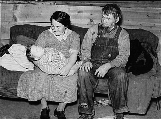 Mr. and Mrs. Harshenberger and baby. Mennonite farmers near Antelope, Montana.